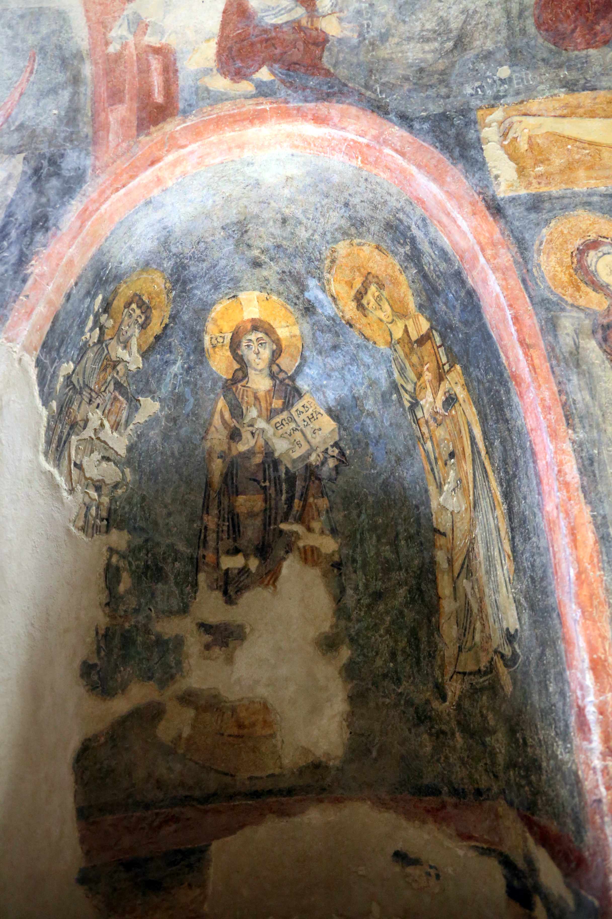 Epifanio Crypt